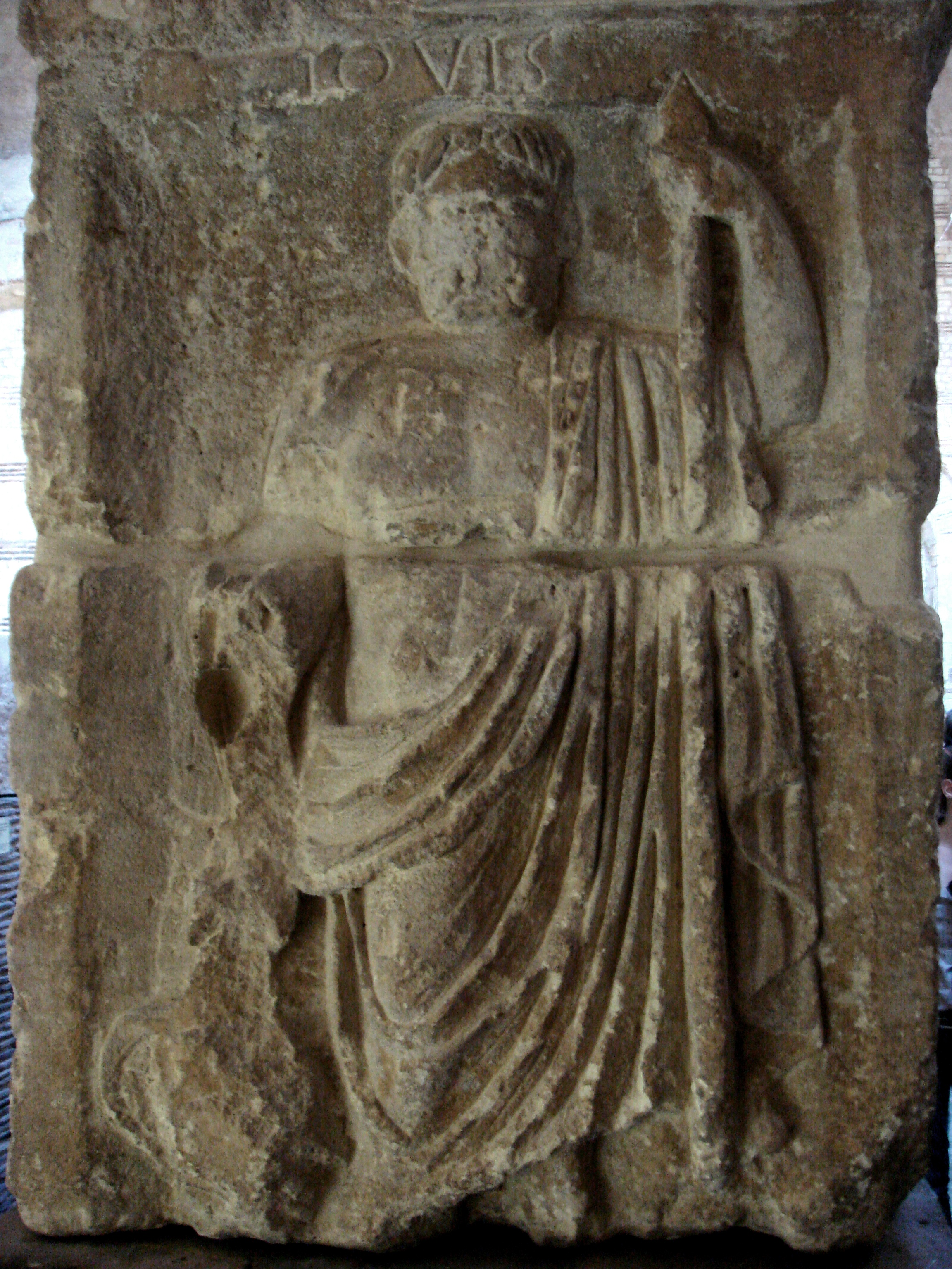 Pilier_des_Nautes_de_Jupiter_with_Jupiter